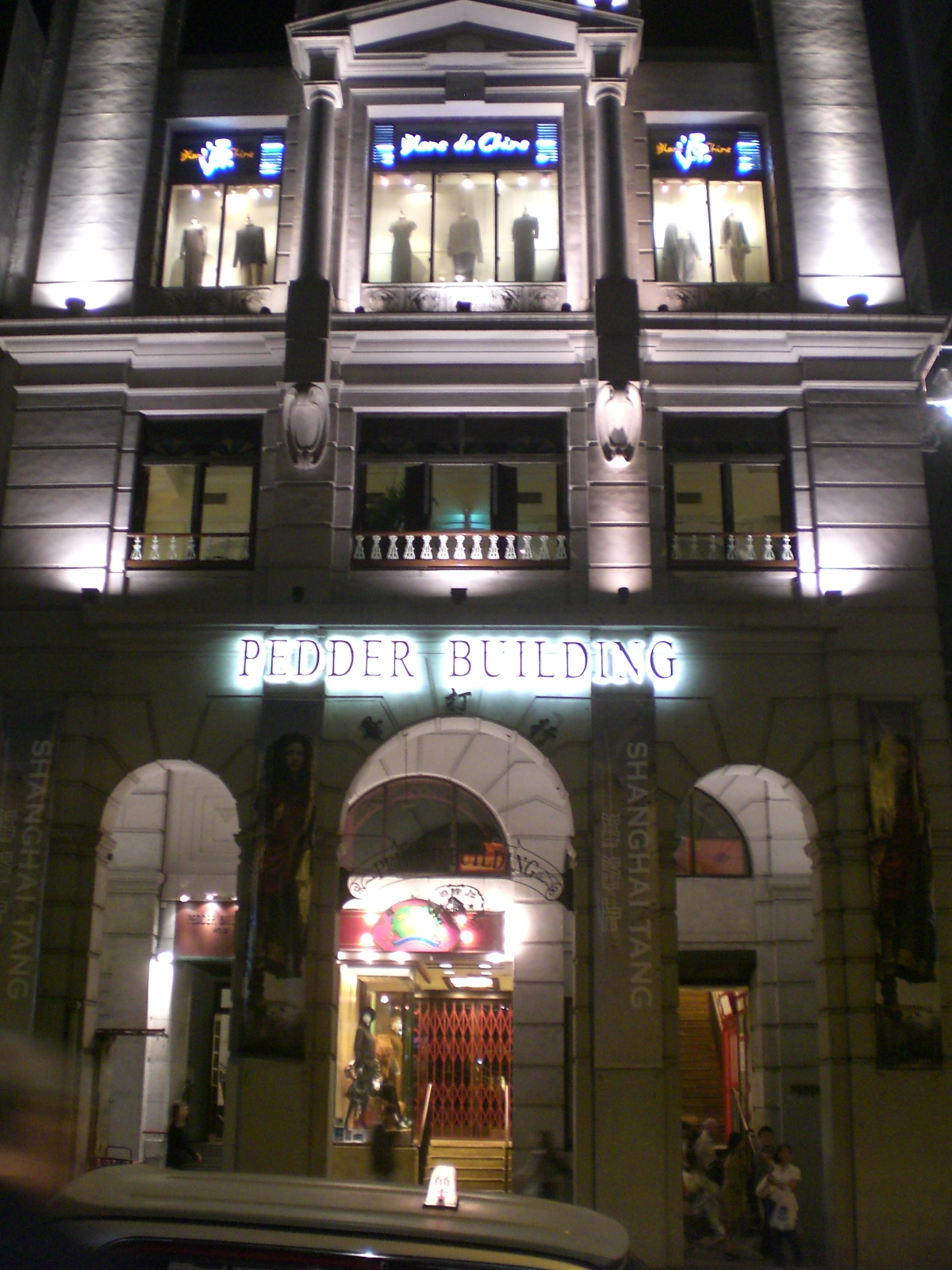 Author= PeterHong 畢打街, 畢打行, Pedder Street, Central, Hong Kong